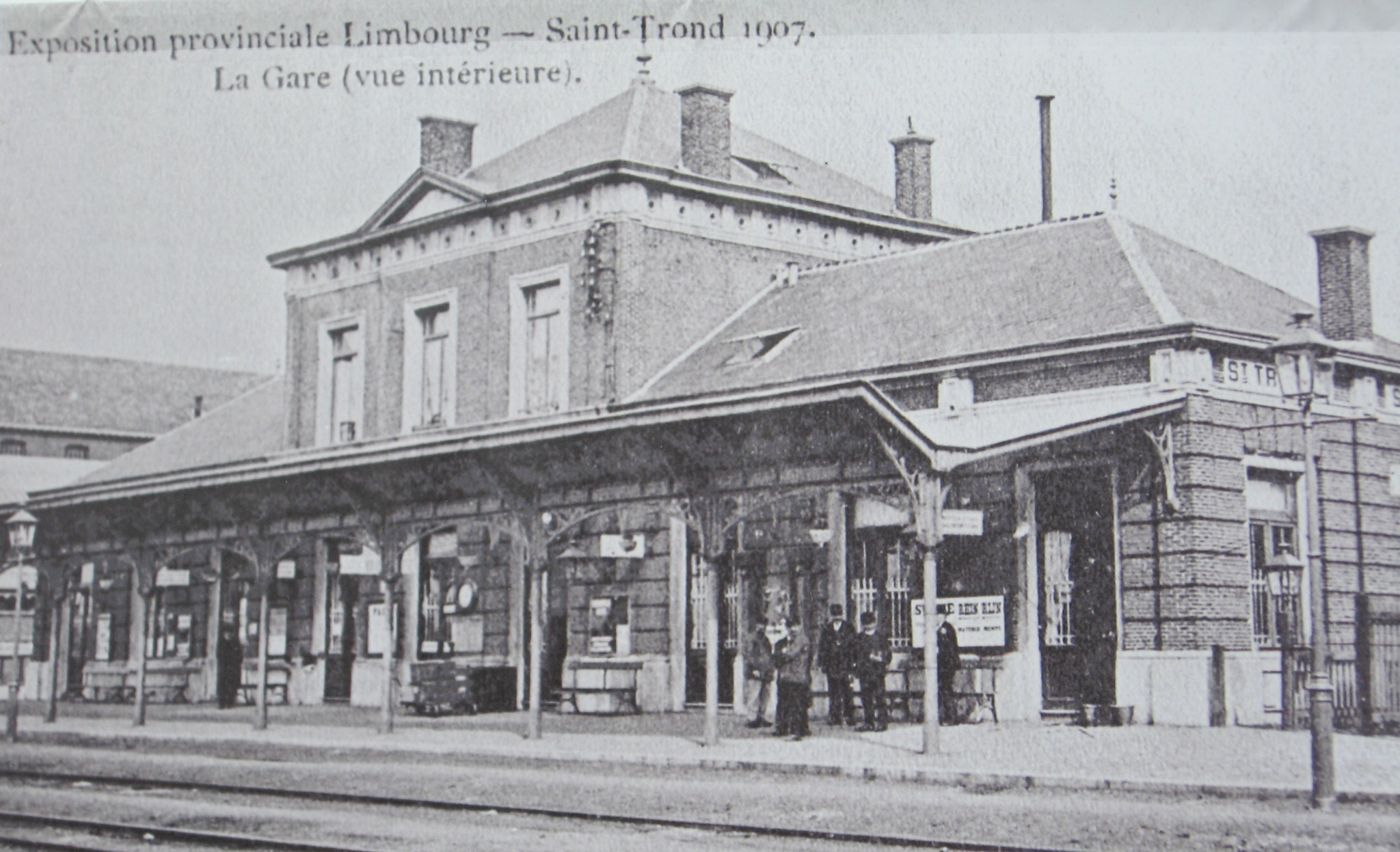 Train station of Sint-Truiden, Limburg, Belgium during the provincial exposition of 1907